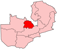 Map of Zambia showing Copperbelt province.